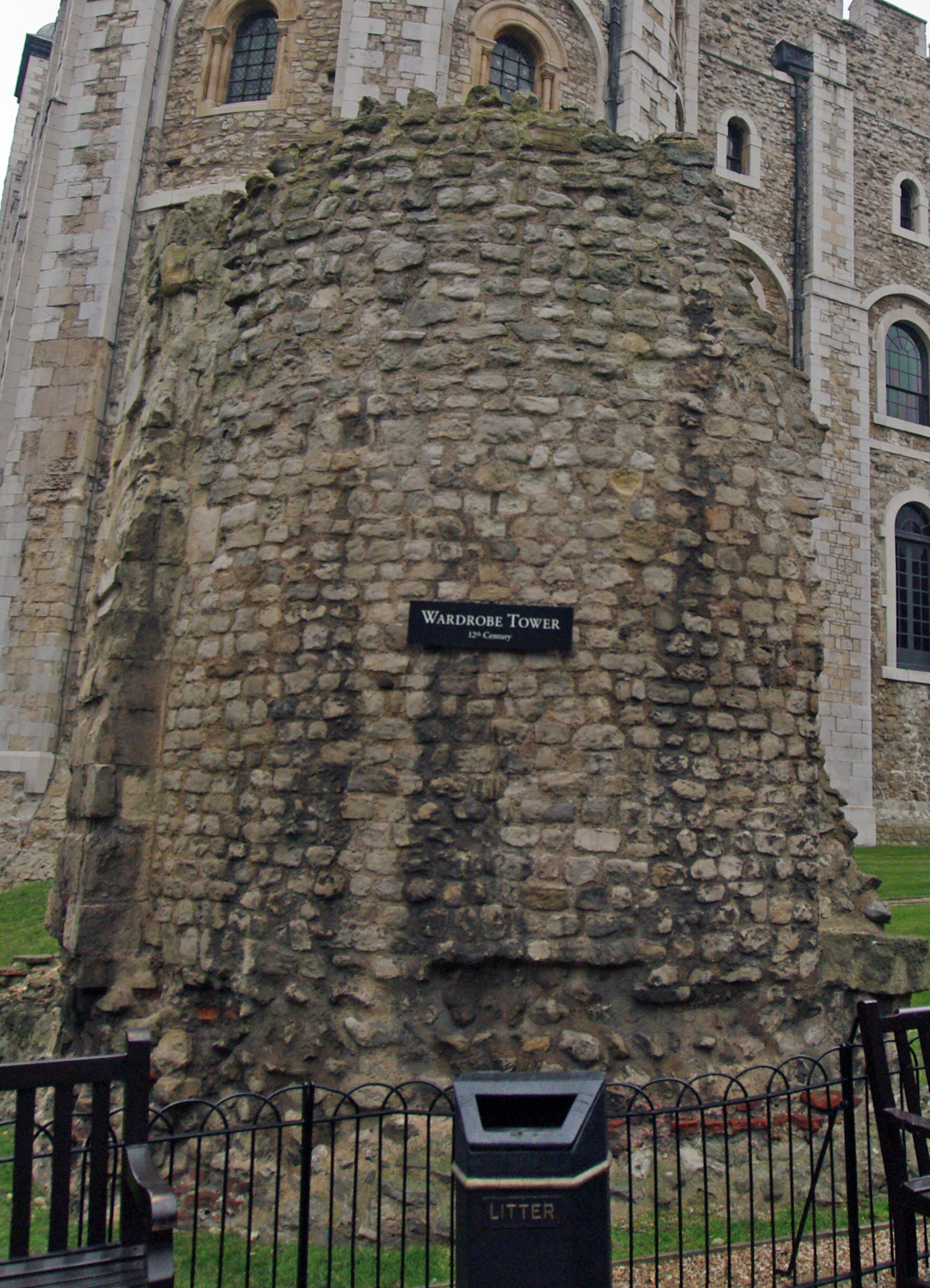 Wardrobe Tower in the Tower of London